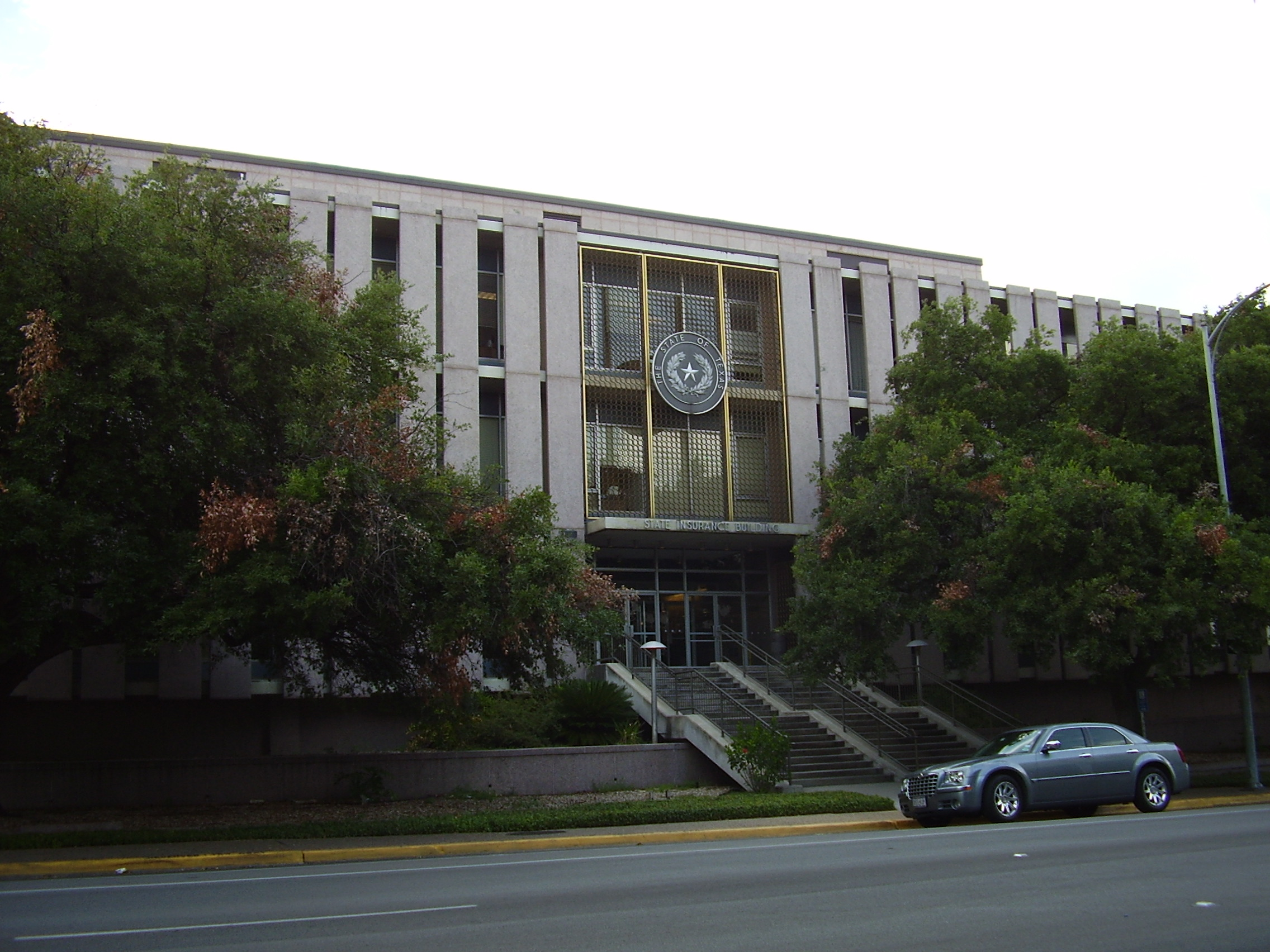 Texas State Insurance Building - includes offices of Texas Music Office and the Texas Film Commission